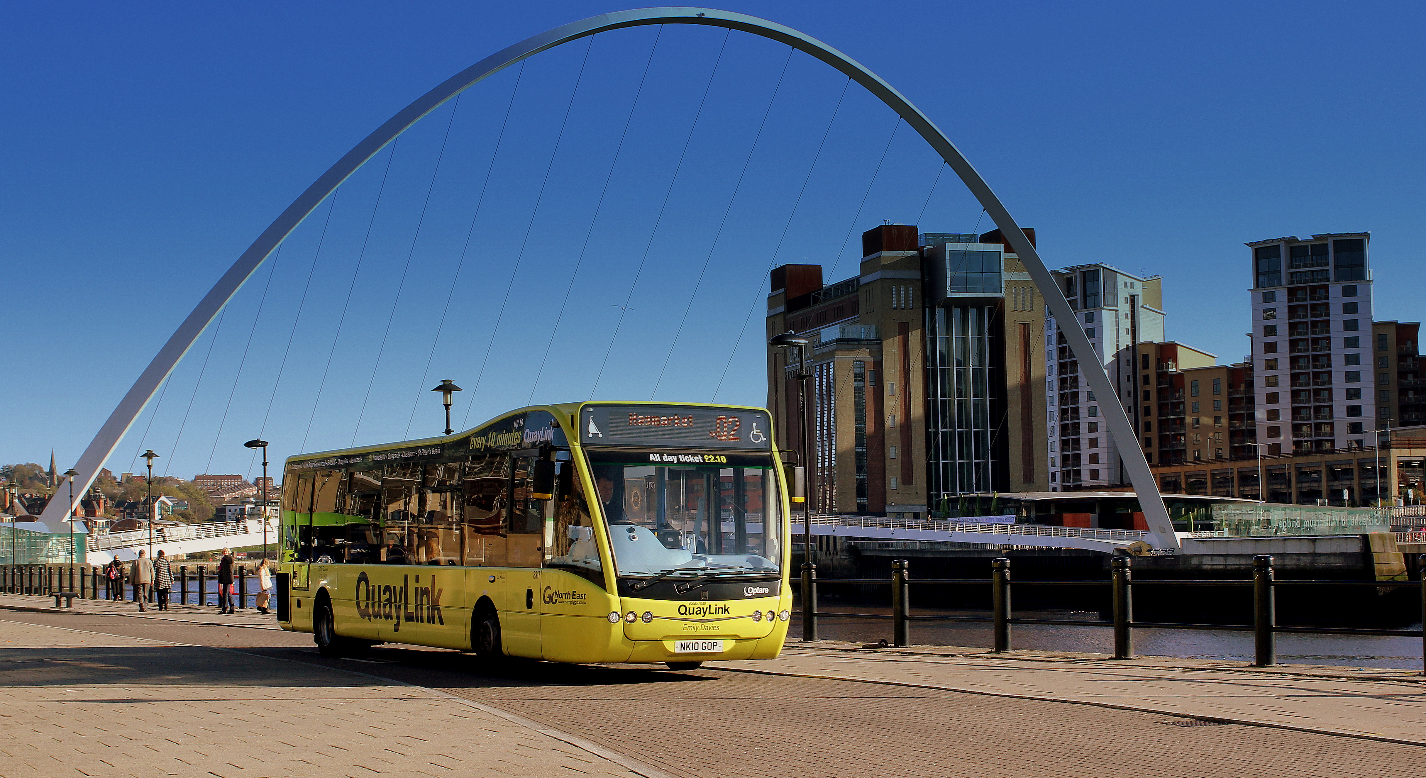 QUAY LINK OPTARE SINGLE DECK ROUTE 2 NEAR THE MILLENIUM BRIDGE AND BALTIC FLOUR MILL NEWCASTLE QUAYSIDE NOV 2013